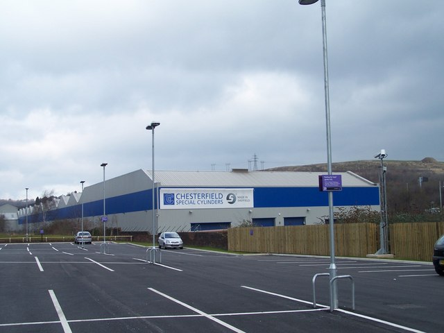 Chesterfield Special Cylinders, Meadowhall, Sheffield Nice and shiny factory ... just like their cylinders!